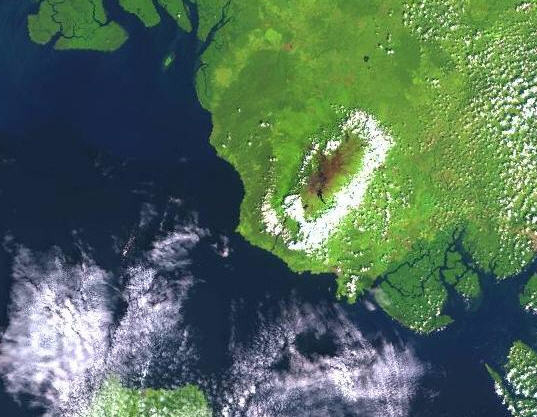 USGS satellite photograph of the Mount Cameroon and Bioko montane forests biome